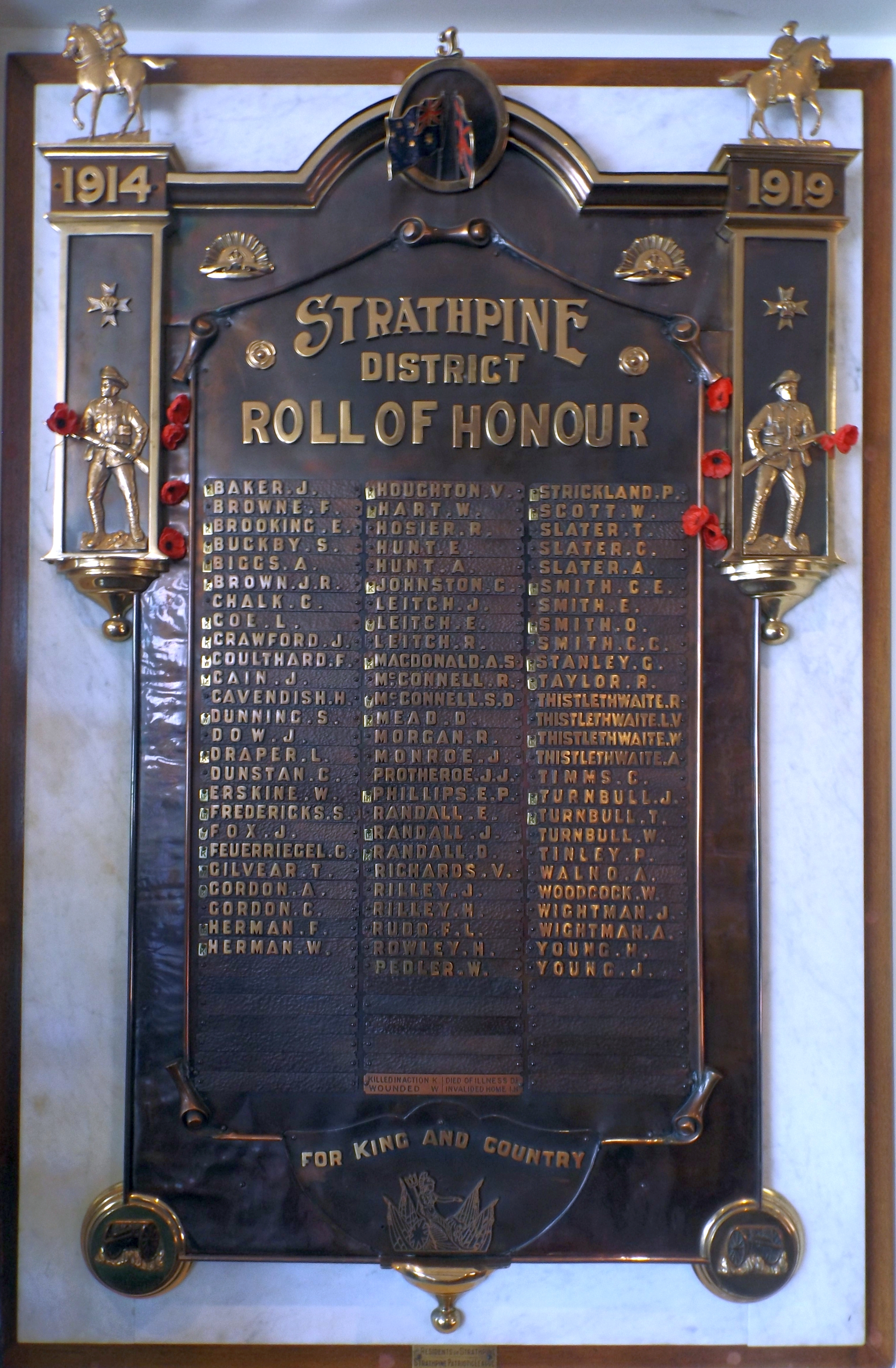 Photo of the Strathpine Honour Board in RSL club at Kallangur, Moreton Bay Region, Queensland, Australia.